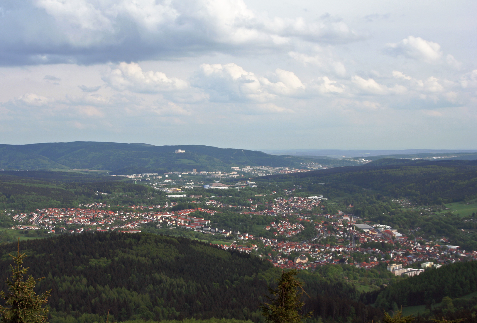 Zella-Mehlis seen from the Ruppberg